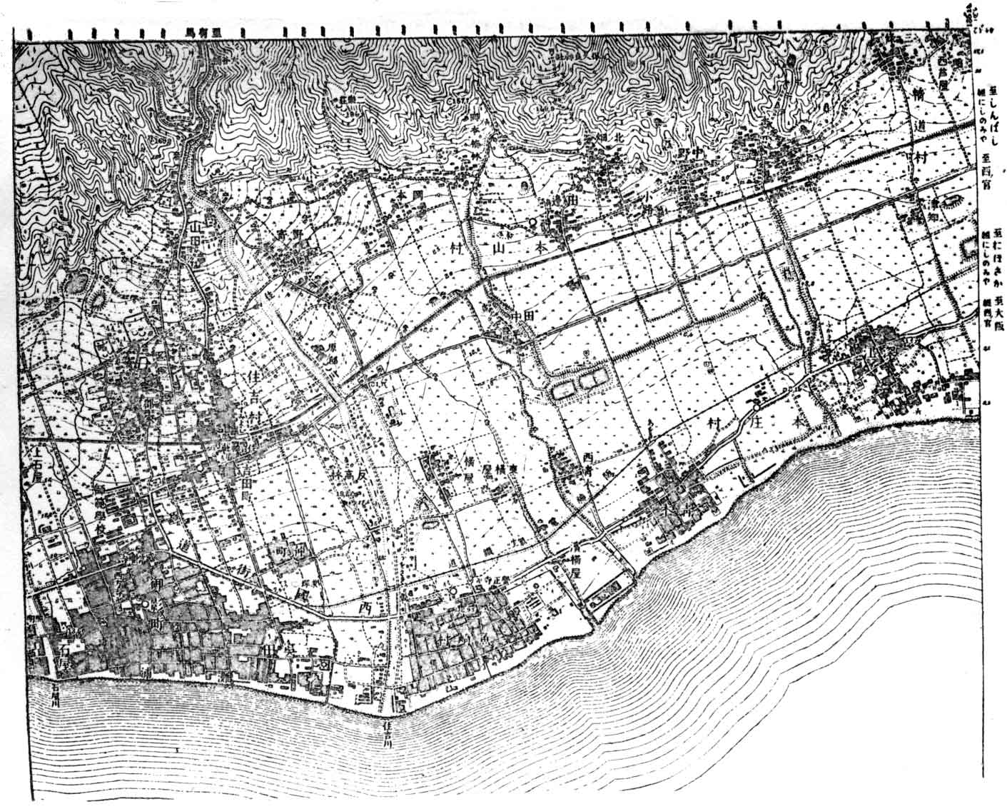 Map of Motoyama village in Meiji Period